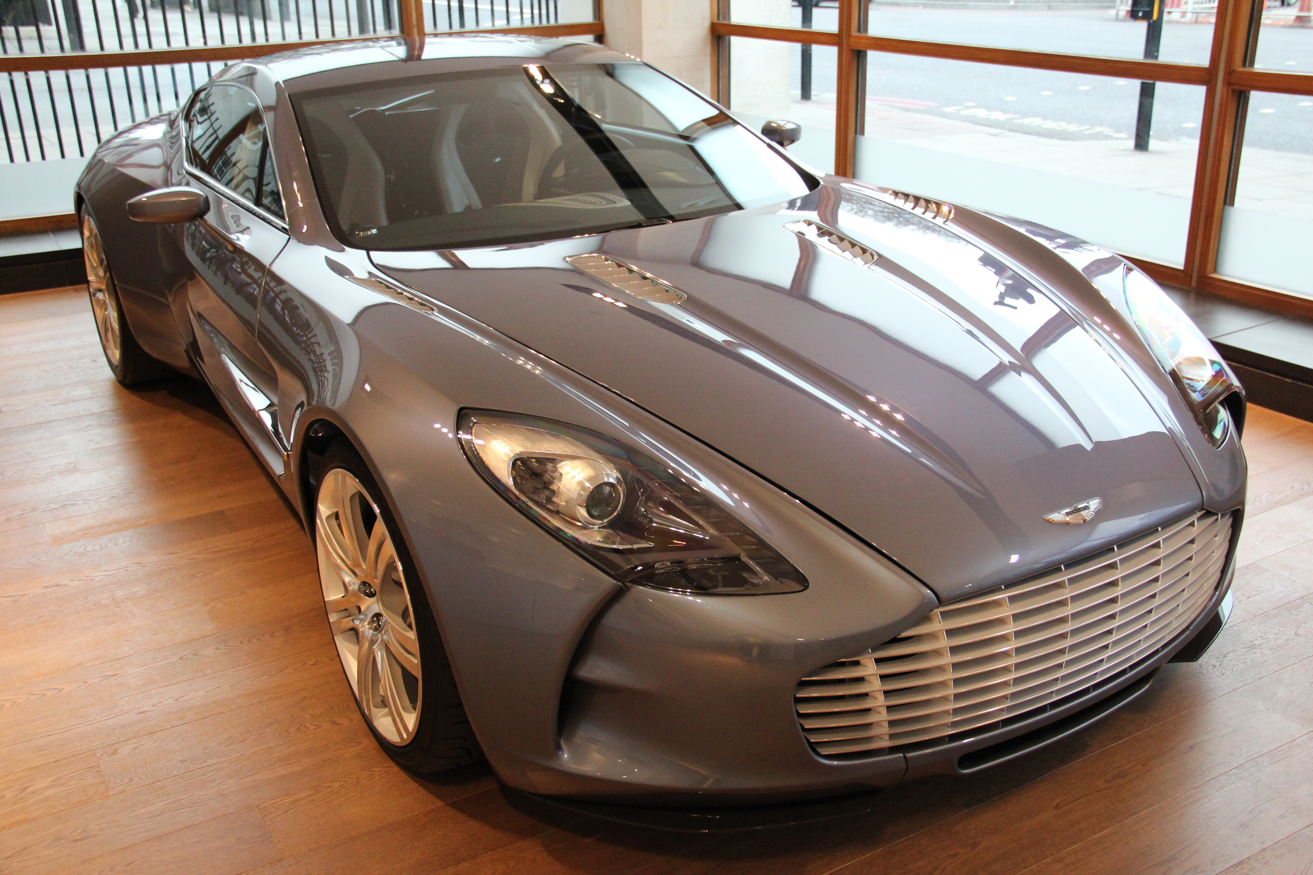 one-77 shop